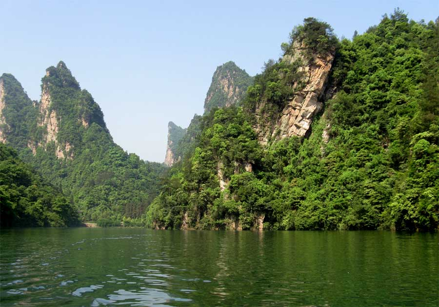 Zhangjiajie